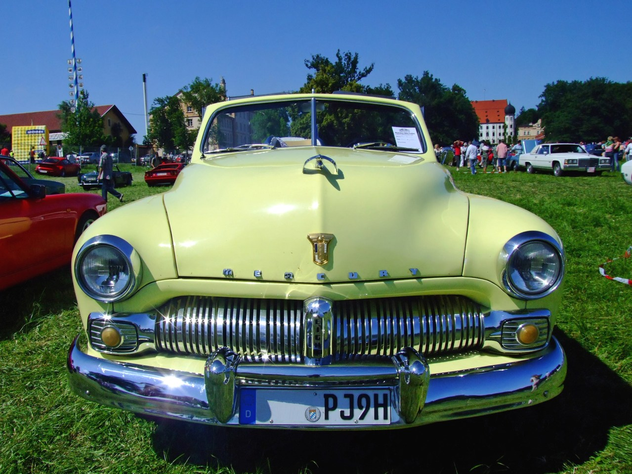 1950 Mercury at ADAC Bavaria Historic Maxlrain 2007